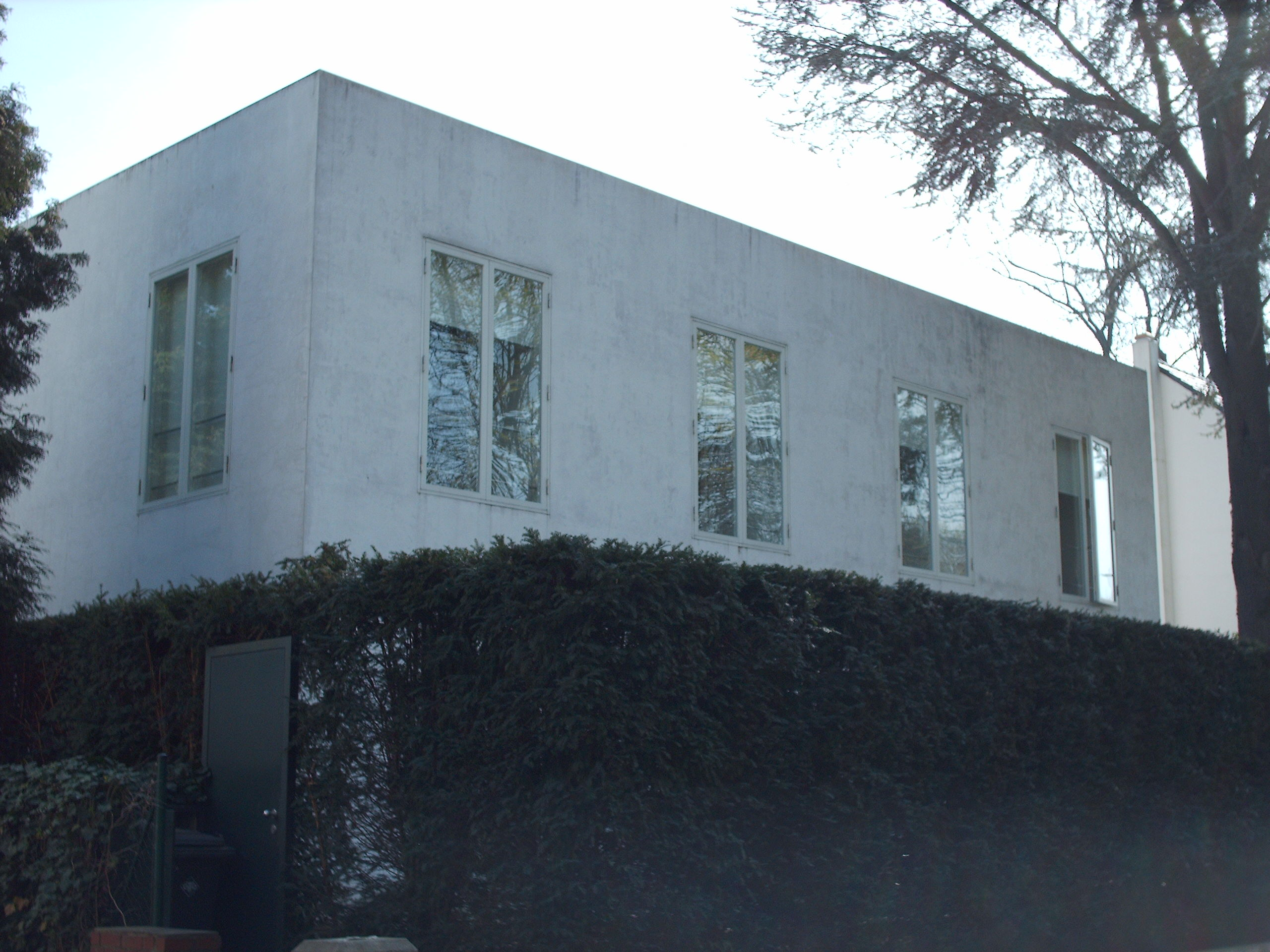 Haus ohne Eigenschaften (House without characteristics), Cologne, Germany check usage